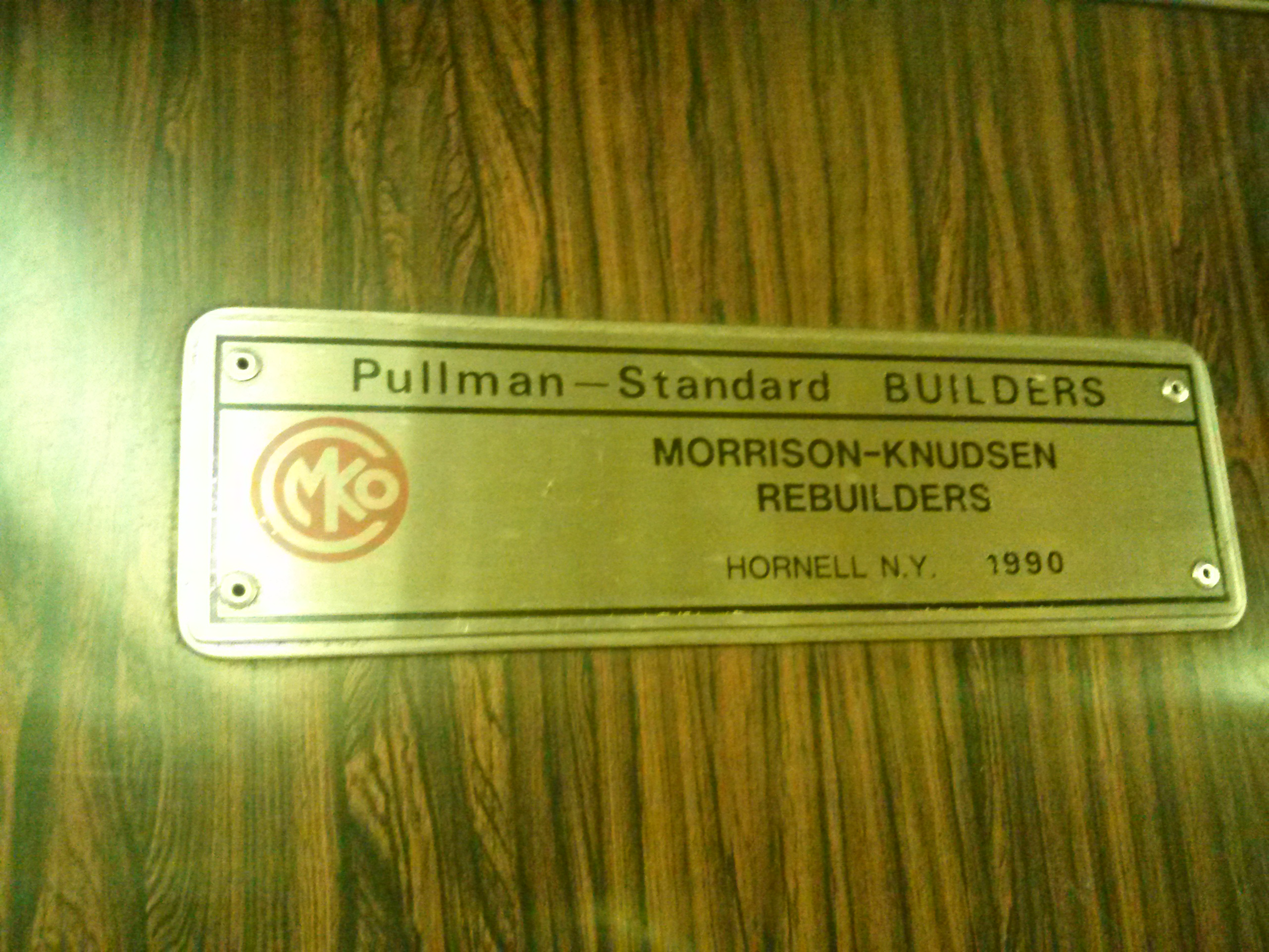 Plaque showing the two companies that originally built the R46 train cars and restored it.